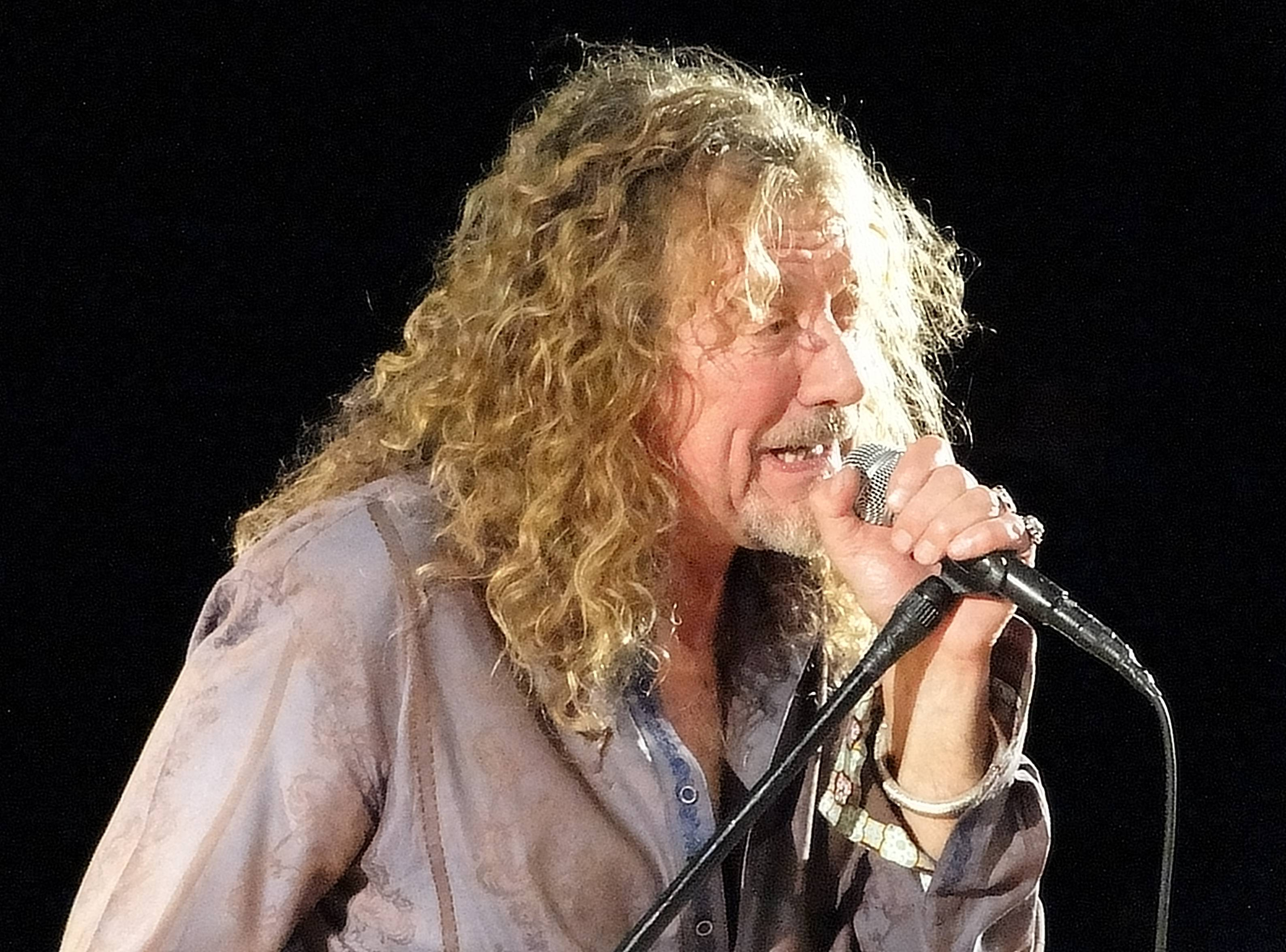 Robert Plant fronting Band of Joy at Birmingham Symphony Hall, 27 October 2010